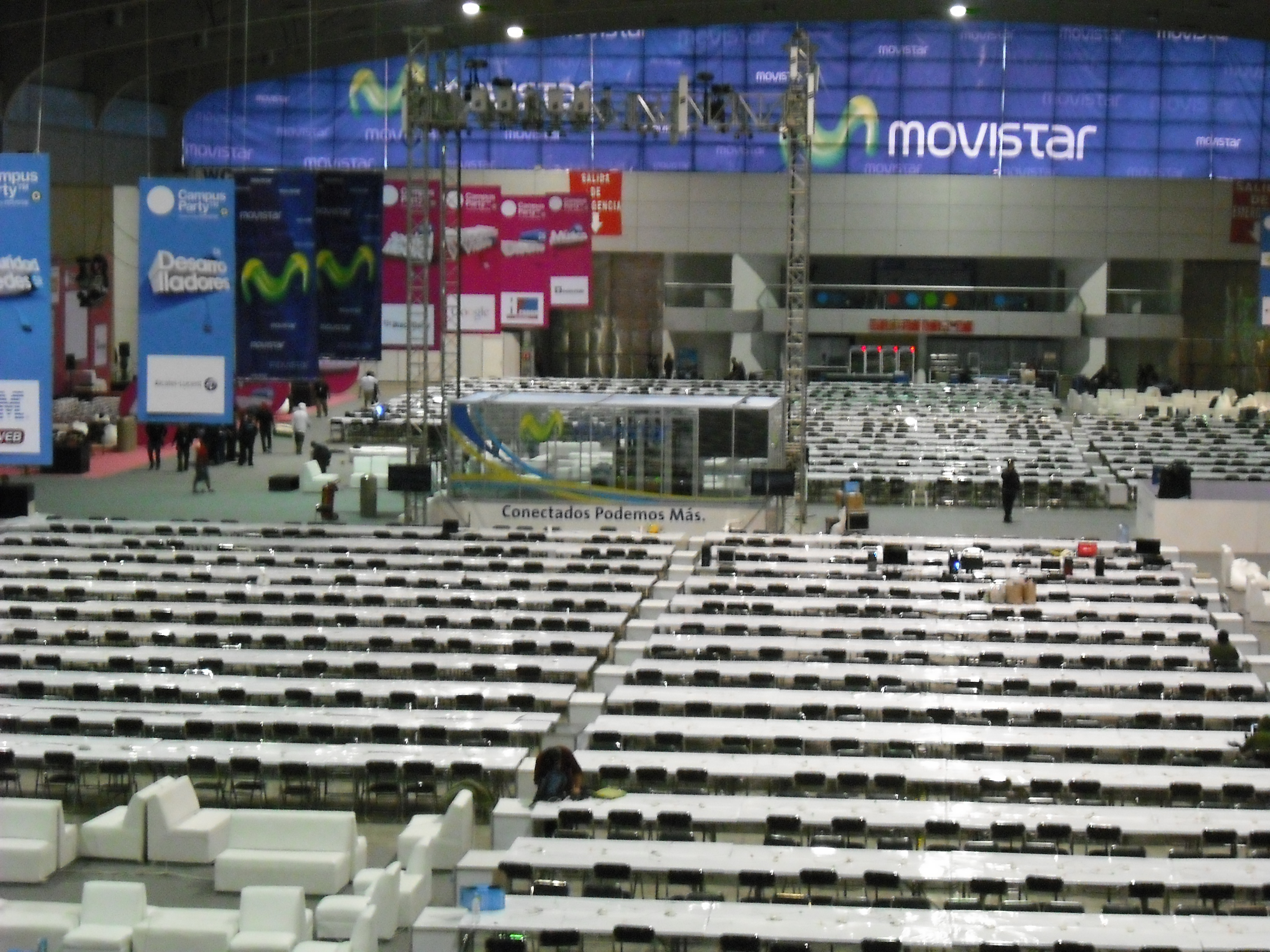 Ovni (Control Center) at Campus Party México 2010 (CPMX2)